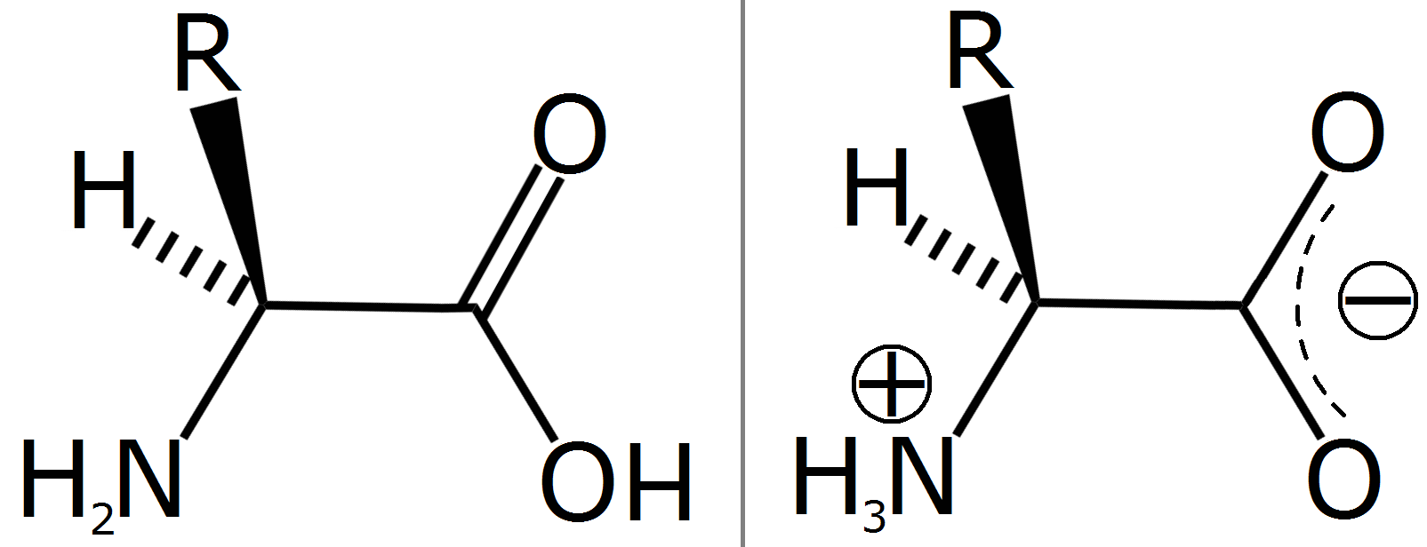 Created by me in gimp by editing the GFDL'ed Image:Amino_acids_1.png